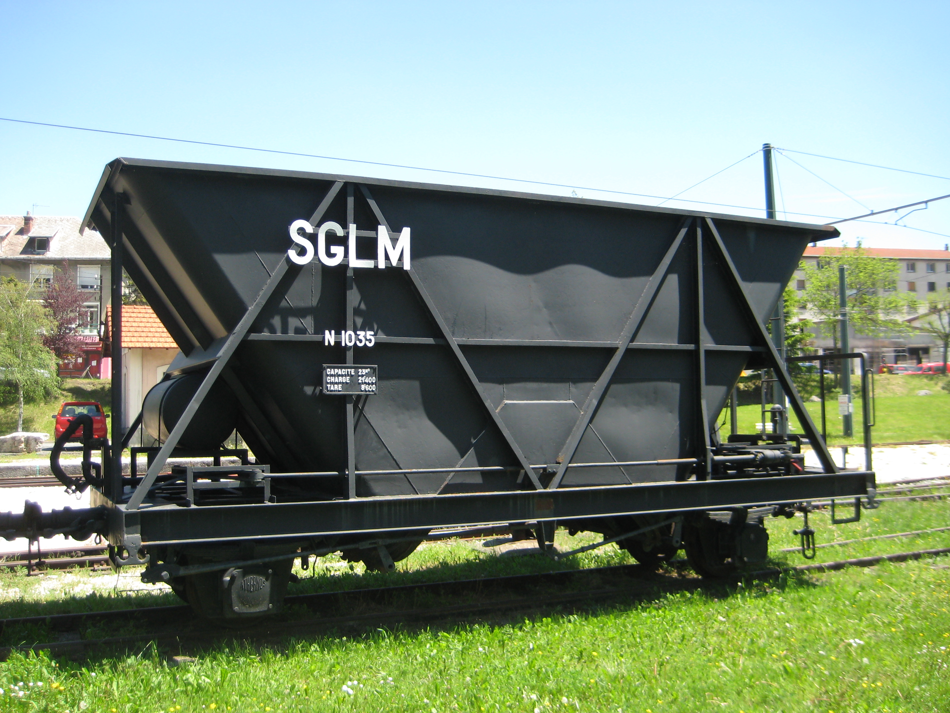 a Hopper car from Etablissements Richard (F) build in 1961. It was in use as number N1035 by the Train de la Mure in France.